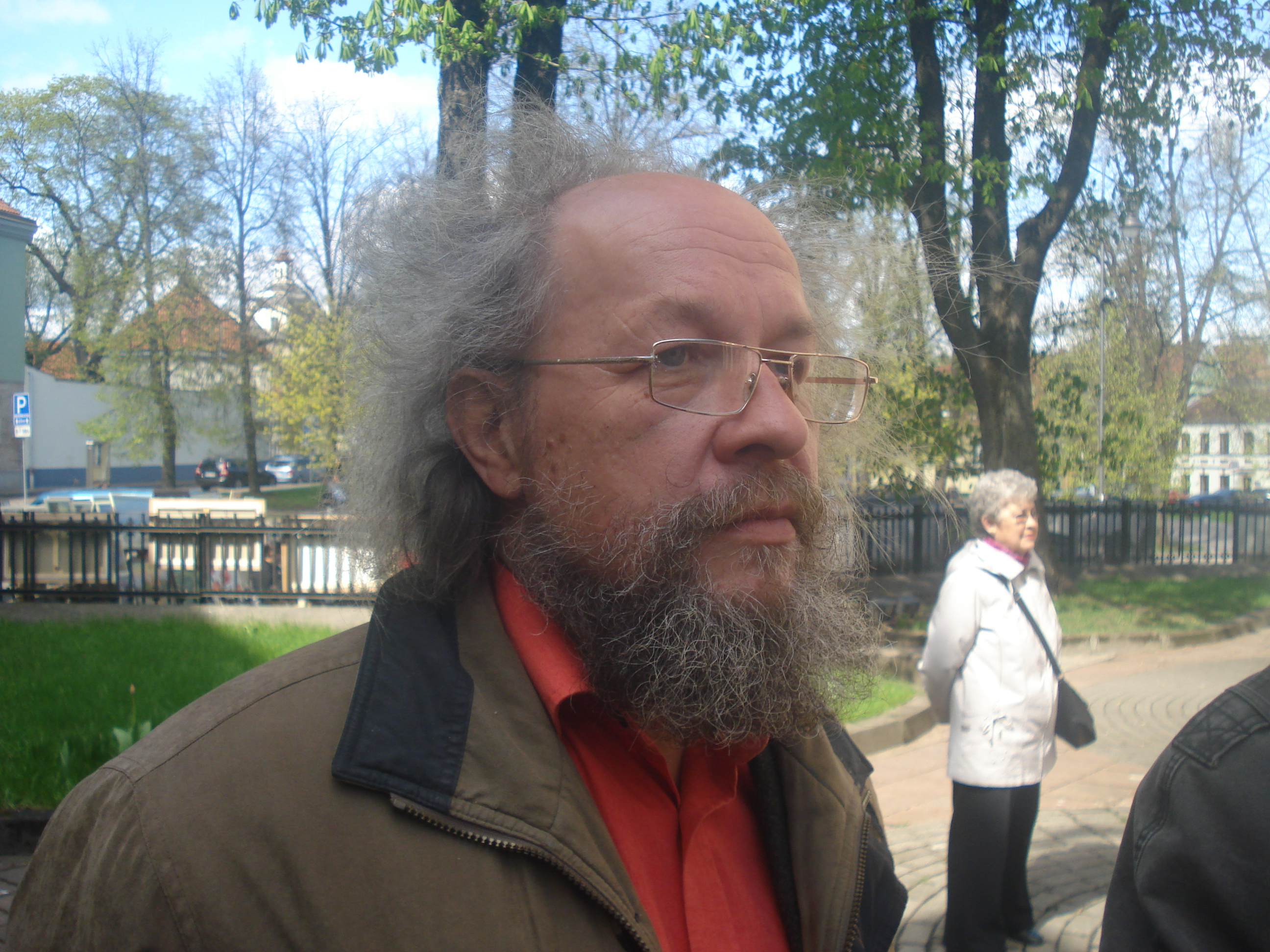 Vytautas Nalivaika, Lithuanian sculptor